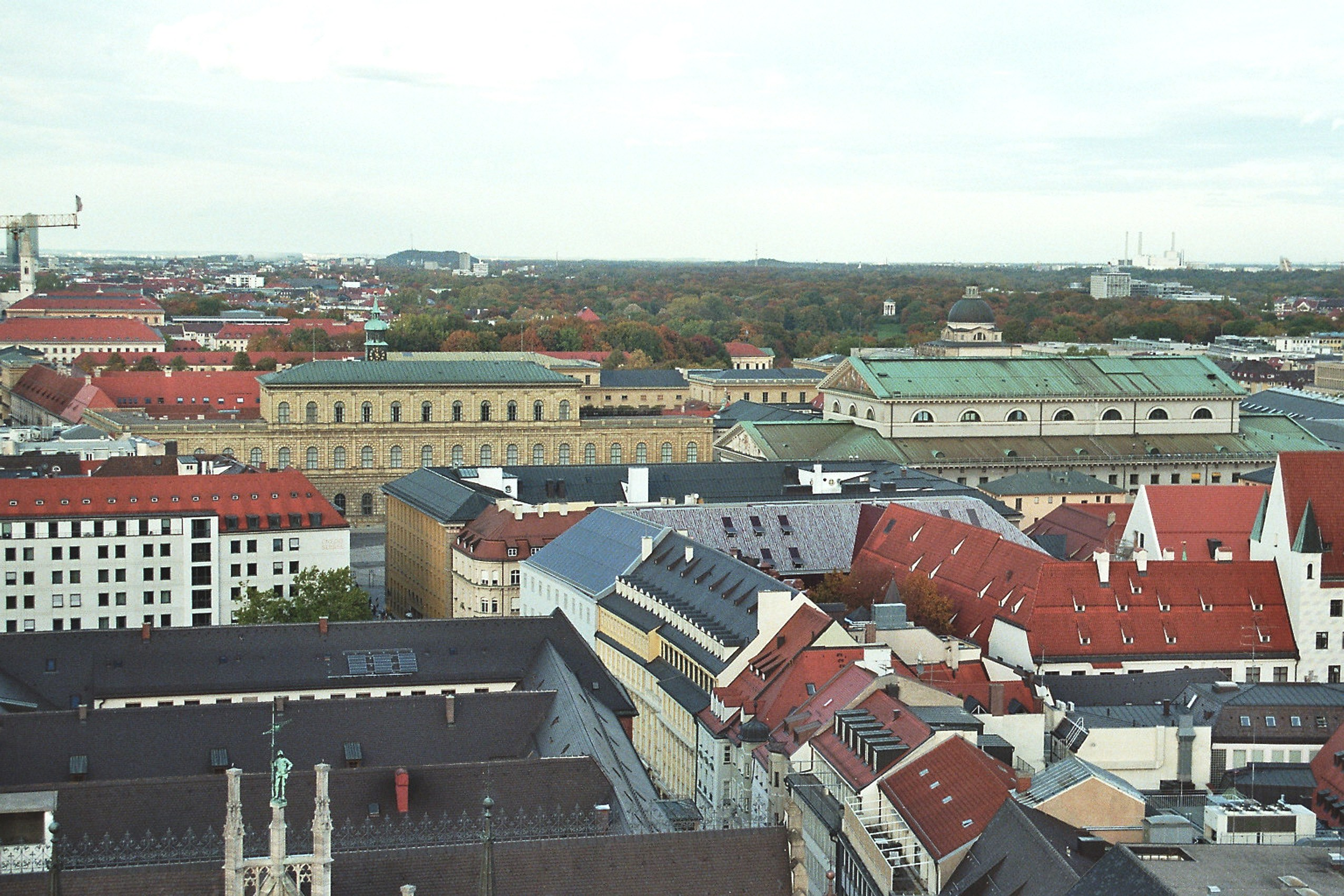 Munich, St. Peter, view to the opera house and to the residence